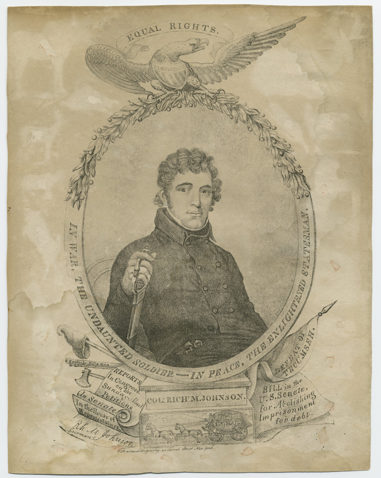 Collection: Cornell University Collection of Political Americana, Cornell University Library Repository: Susan H. Douglas Political Americana Collection, #2214 Rare & Manuscript Collections, Cornell University Library, Cornell University Title: Colo. Richd. M. Johnson Political Party: Democratic Election Year: 1836 Date Made: ca. 1836 Measurement: Print: 12.5 x 9.75 in.; 31.75 x 24.765 cm Classification: Prints Persistent URI: There are no known U.S. copyright restrictions on this image. The digital file is owned by the Cornell University Library which is making it freely available with the request that, when possible, the Library be credited as its source.